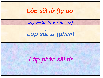 Spin valve structure